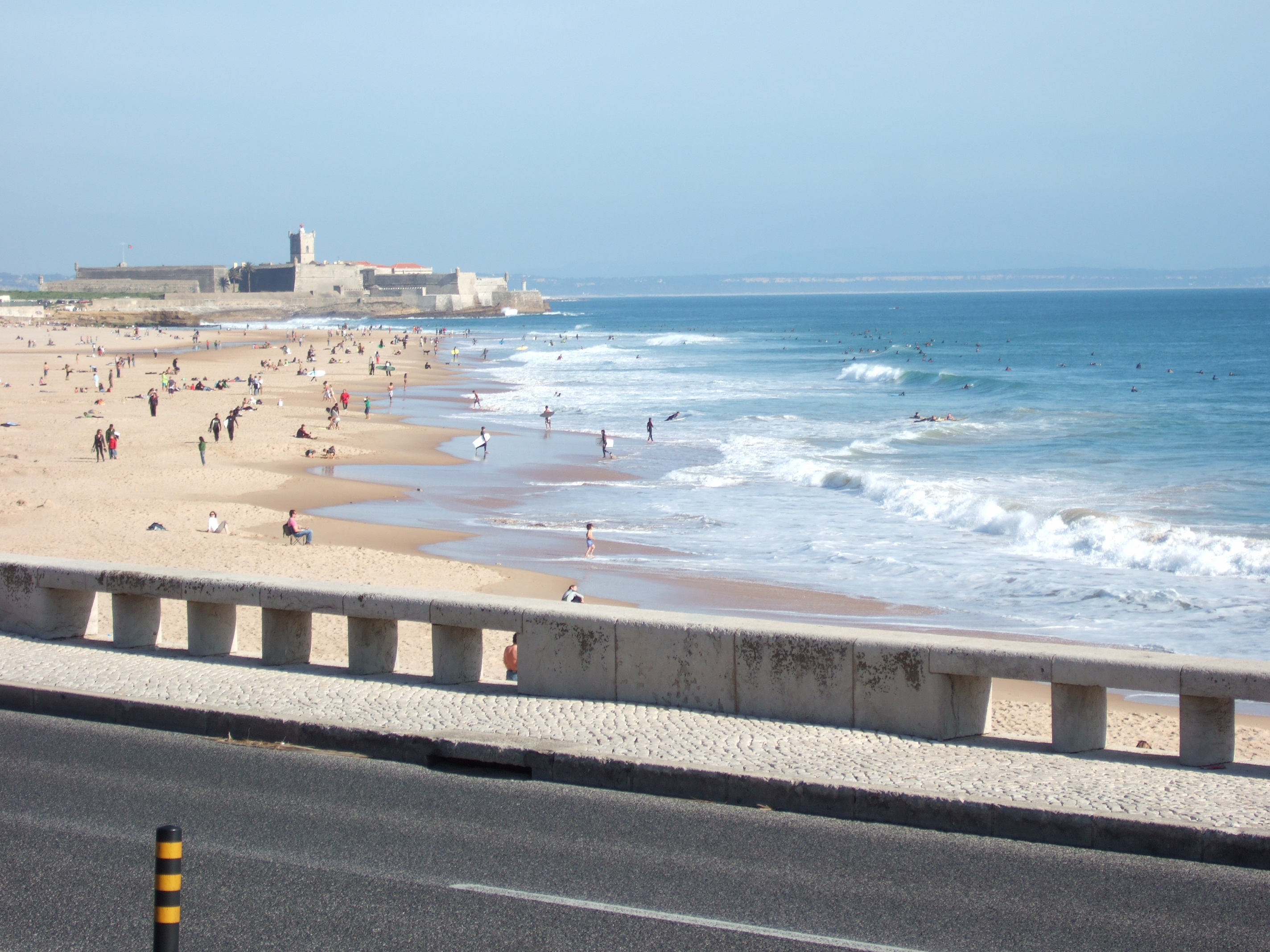 Carcavelos beach, Portugal